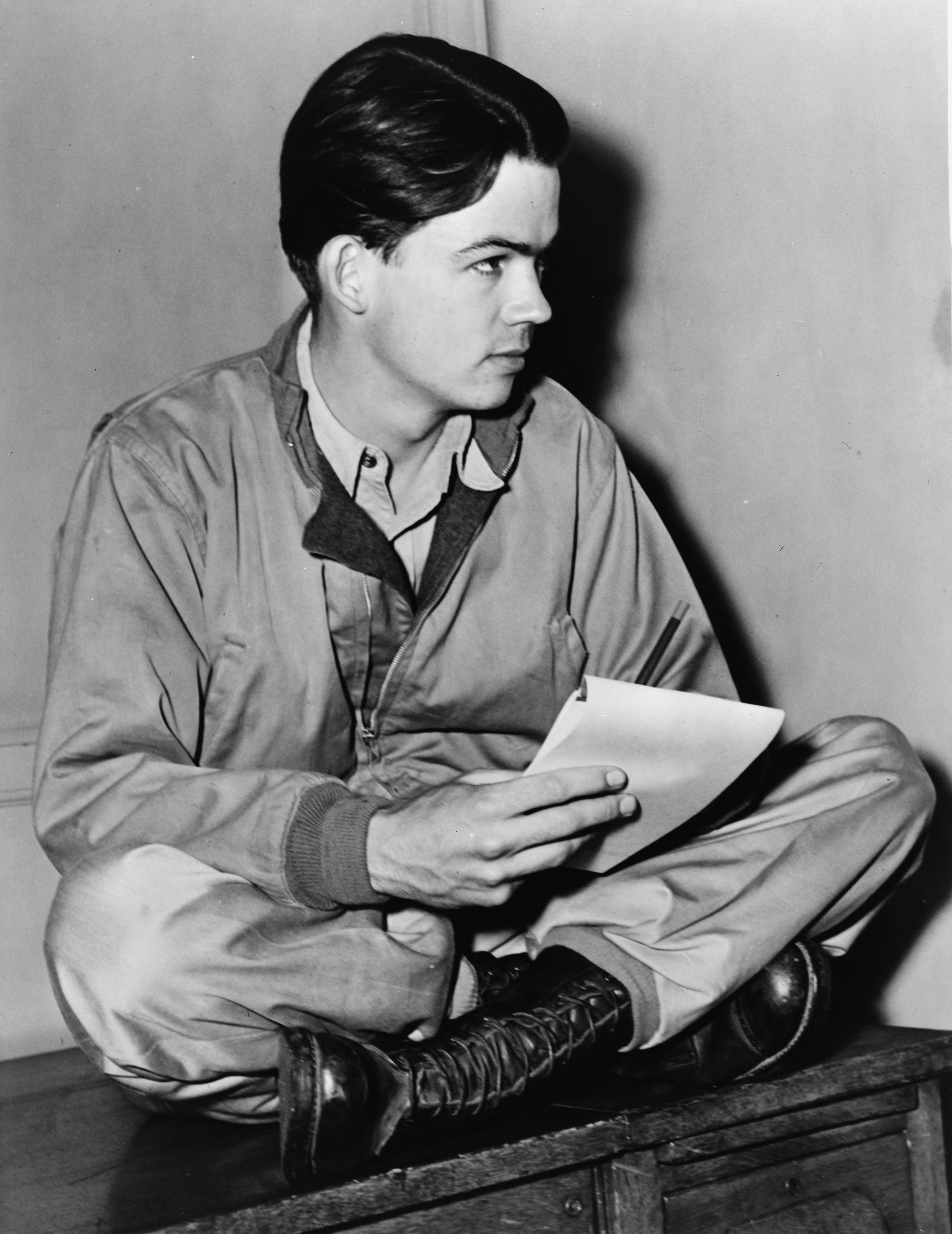 Pulitzer Prize-winning cartoonist Bill Mauldin, with sketch pad